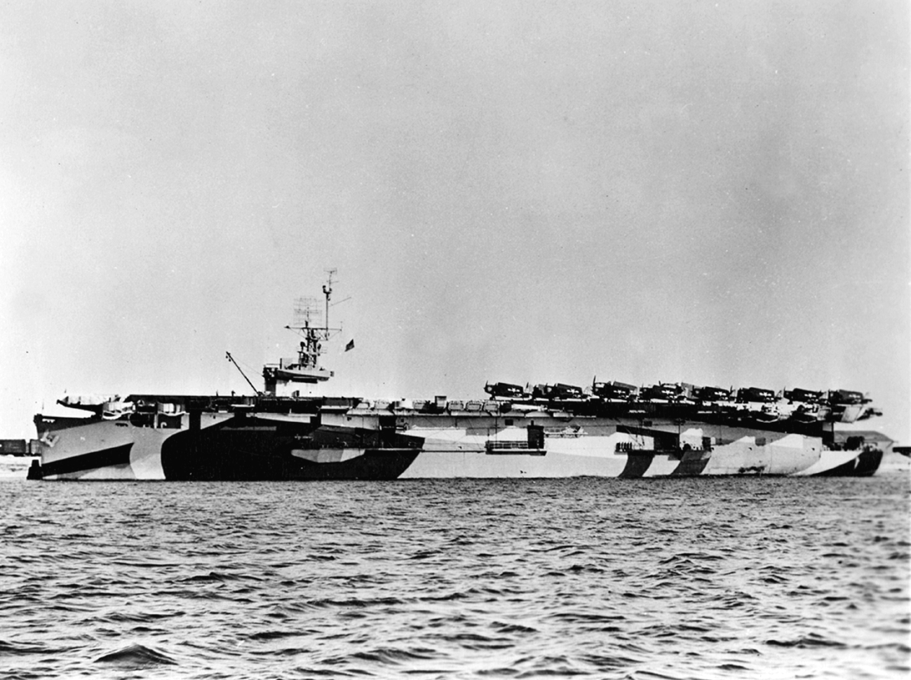 The U.S. Navy escort carrier USS Hoggatt Bay (CVE-75) at anchor, circa in 1945. She is painted in Camouflage Measure 32, Design 12A.